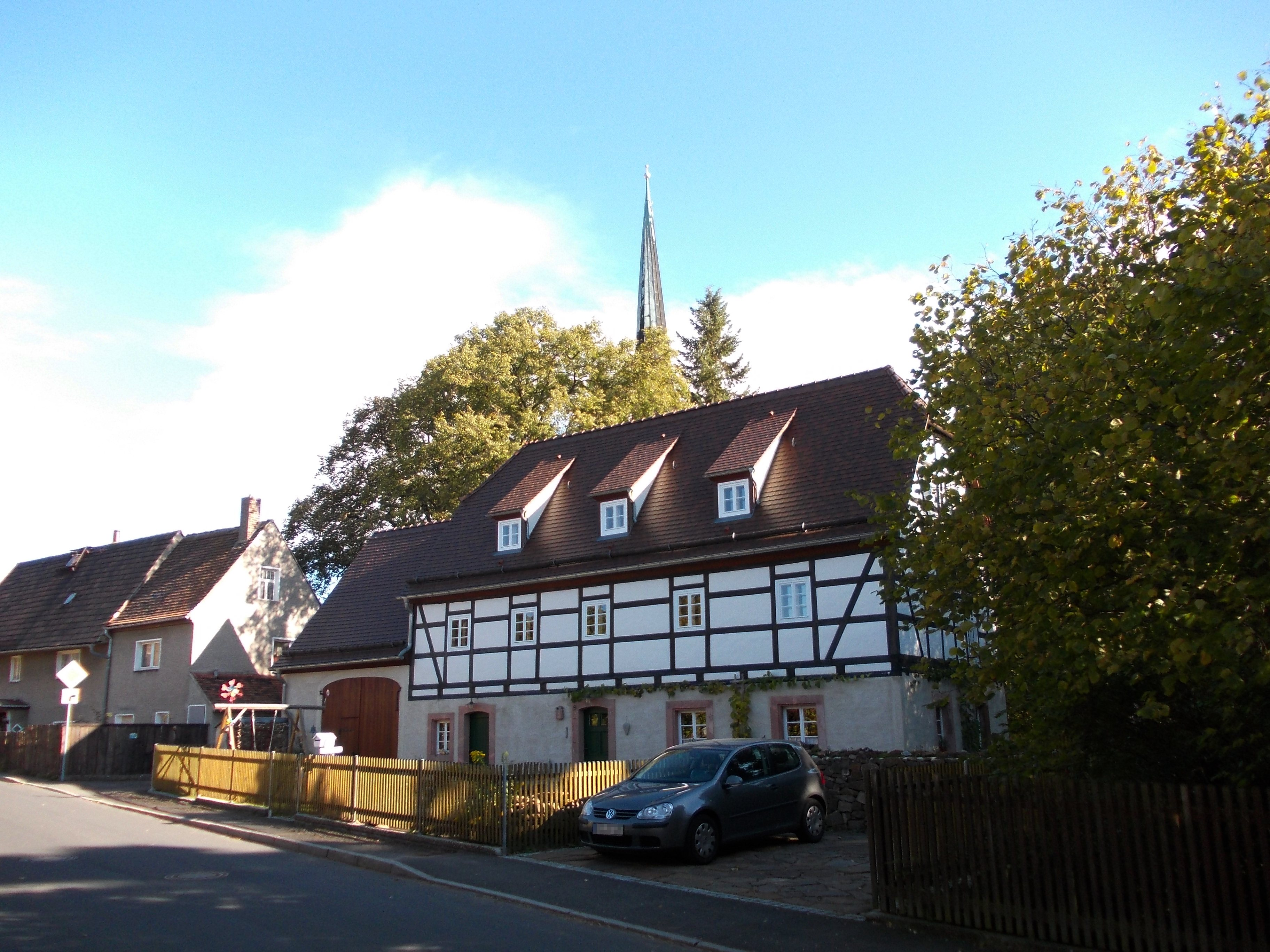 Half-timbered house near the church in Grossbothen (Grimma, Leipzig district, Saxony)